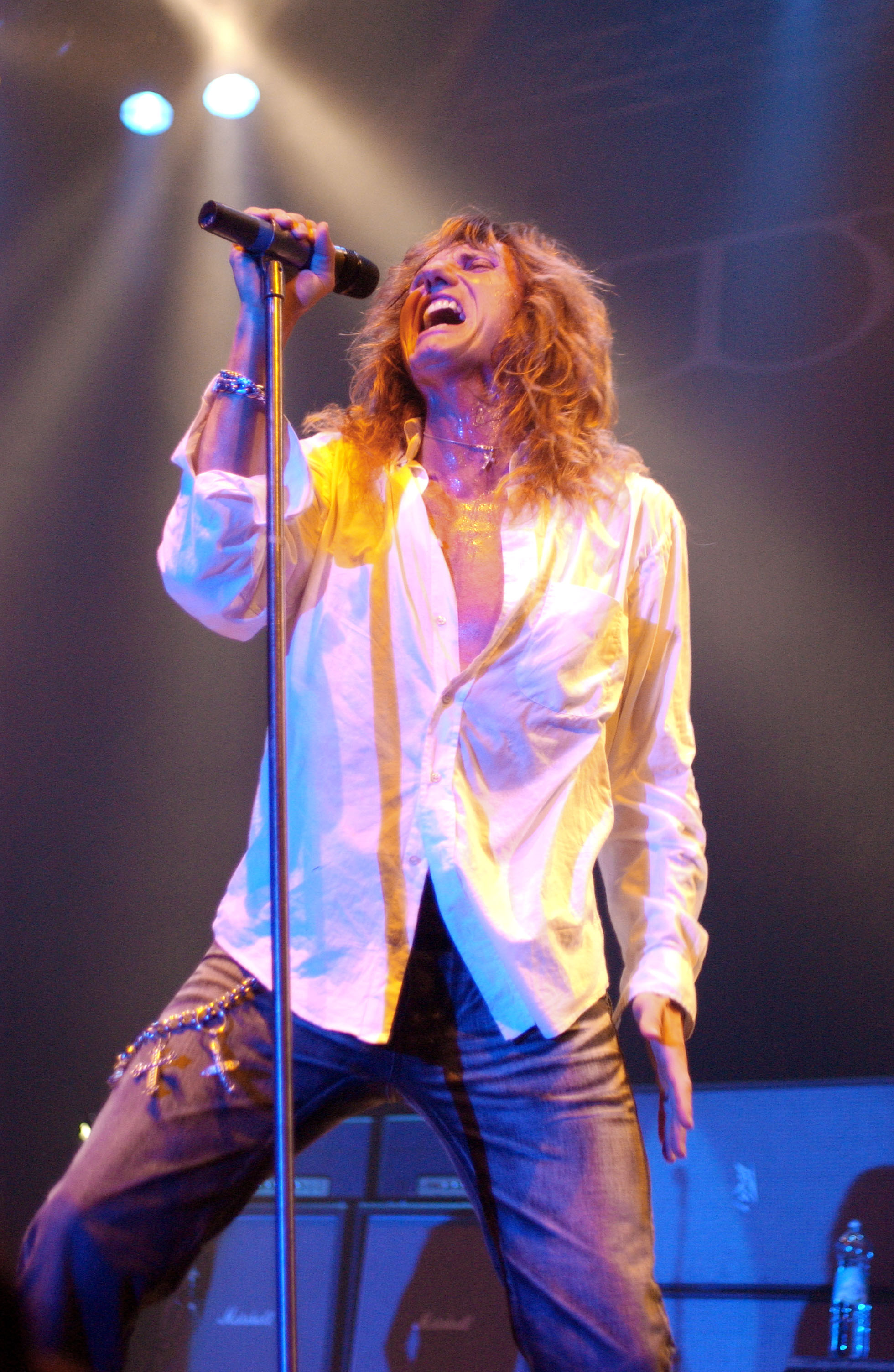 British singer David Coverdale at 2003 Gods of Metal festival.